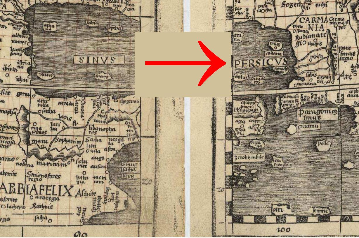 Name of persian gulf in Waldseemuller map